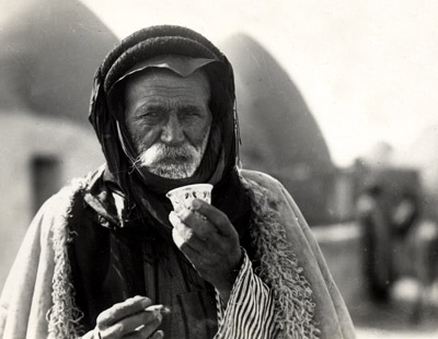 Photo post-card by V. Derounian, 1930, of an elderly inhabitant of a Beehive village in Aleppo's district in northern Syria, sipping the traditional bitter murra Arabic coffee and smoking a cigarette. His over-coat is lined with wool, and serves as a mattress and a blanket (sleeping bag) when traveling, and known locally as furwa, and hence the western word of "fur". The black Kaffiya on his head conserves the heat from the sun in the cold climate of the north.